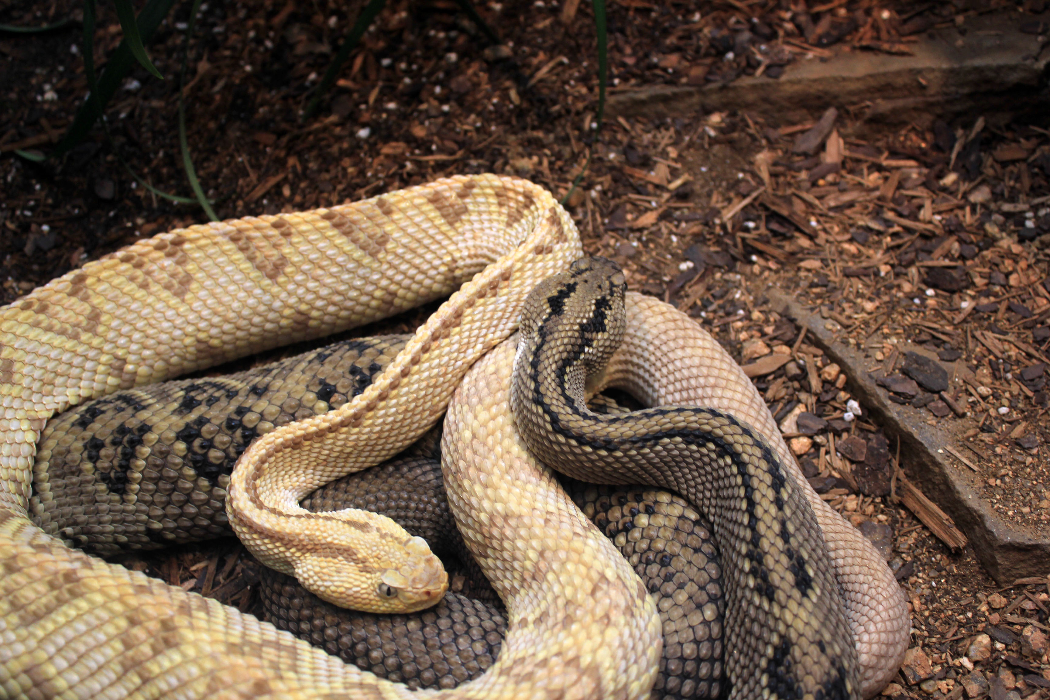 Pictures of fine cold-blooded animals A type of venomous rattlesnake(crotalus simus culminatus)